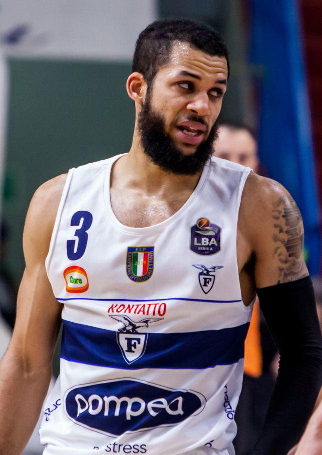 Kassius Robertson della Pompea Fortitudo Bologna dopo lo scontro testa a testa con Vojislav Stojanovic della Vanoli Cremona